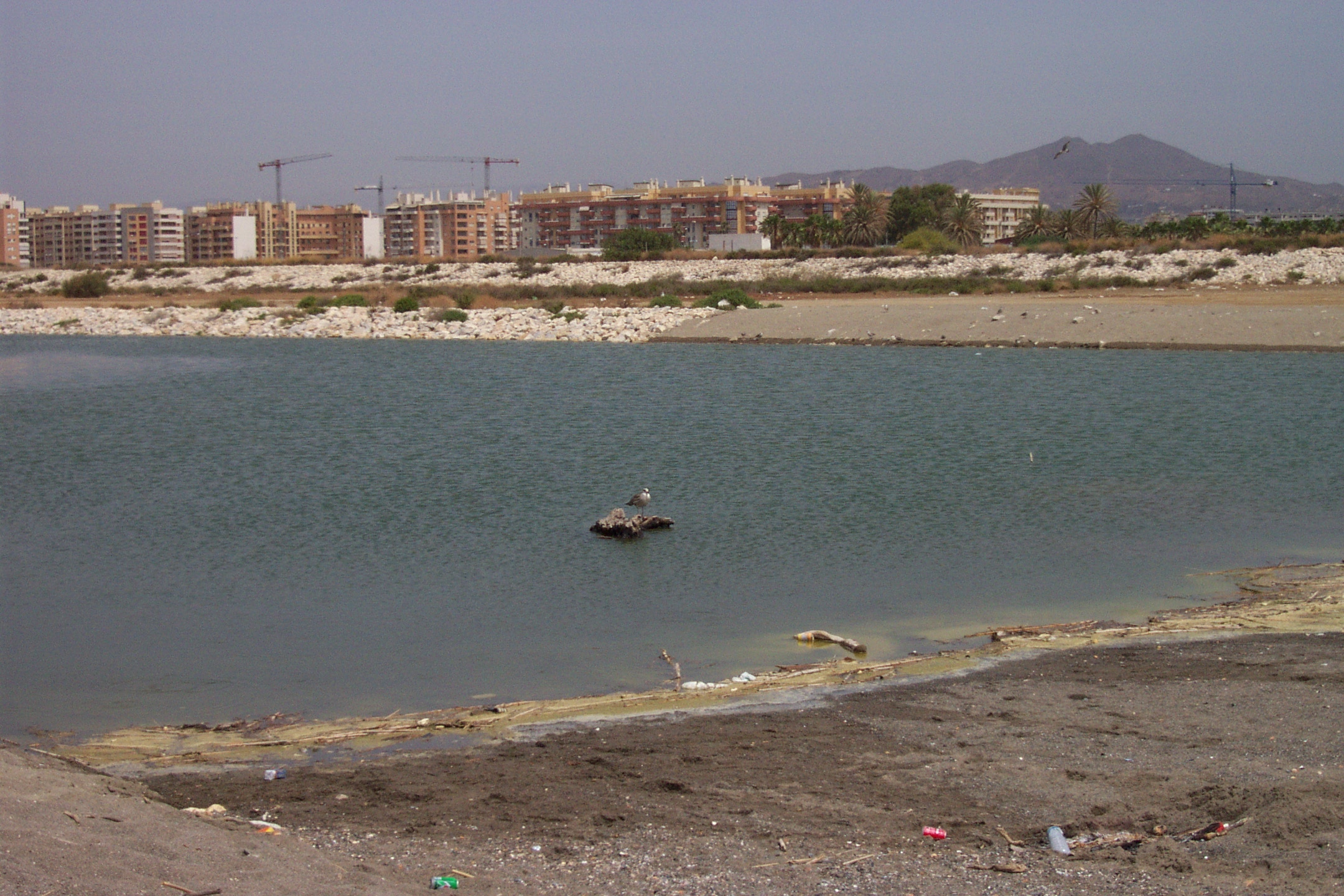 Guadalhorce onflow, July 2008, Malaga, Spain